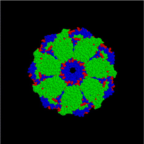 A top-view of the GroES/GroEL protein complex. Image created using Rasmol.